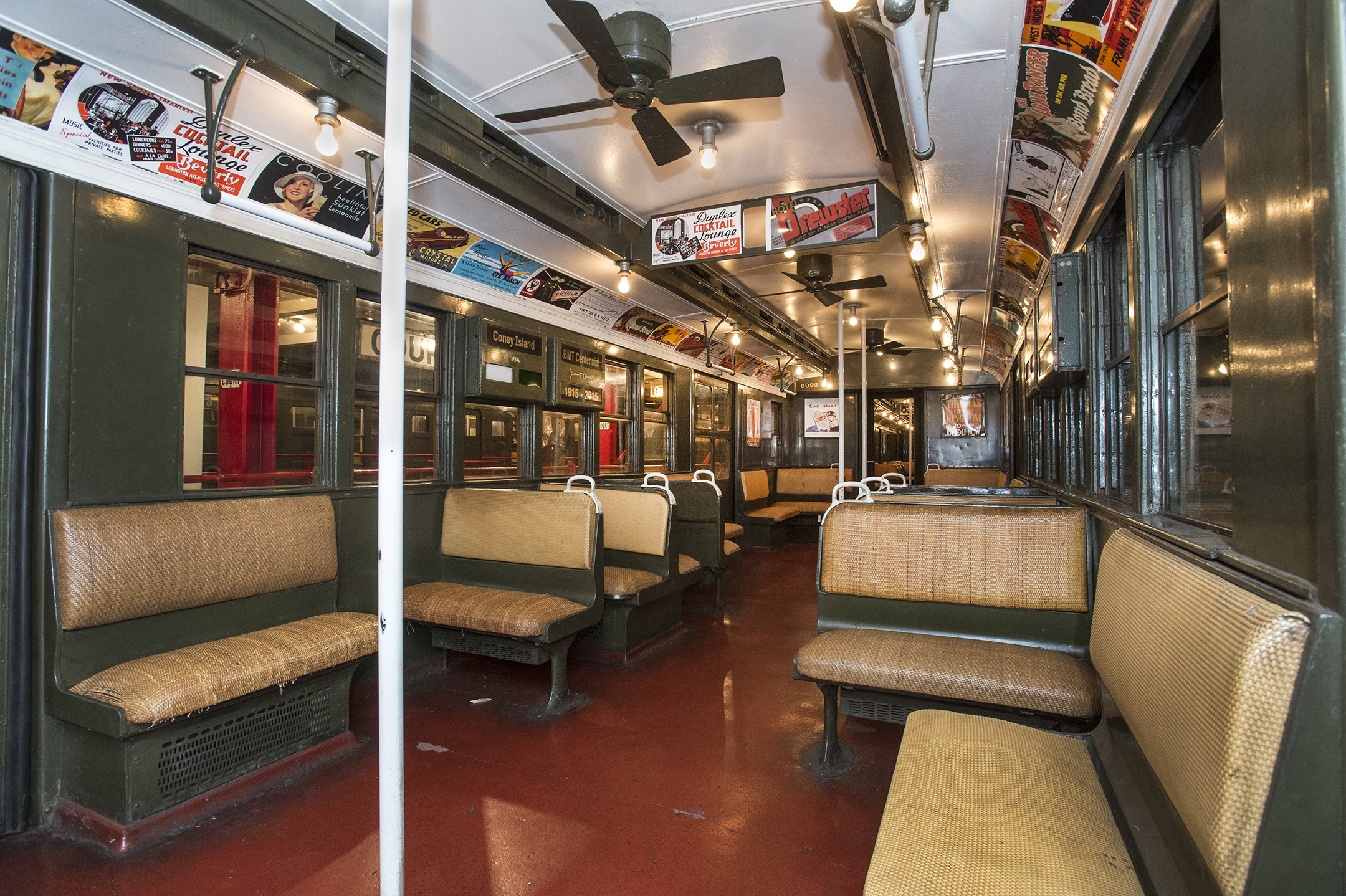 Inside vintage train at celebration of the centennial anniversary of the Brooklyn-Manhattan Transit Corporation (BMT), now part of New York City Transit Subways' B Division, at the New York Transit Museum. Photo: Metropolitan Transportation Authority / Patrick Cashin